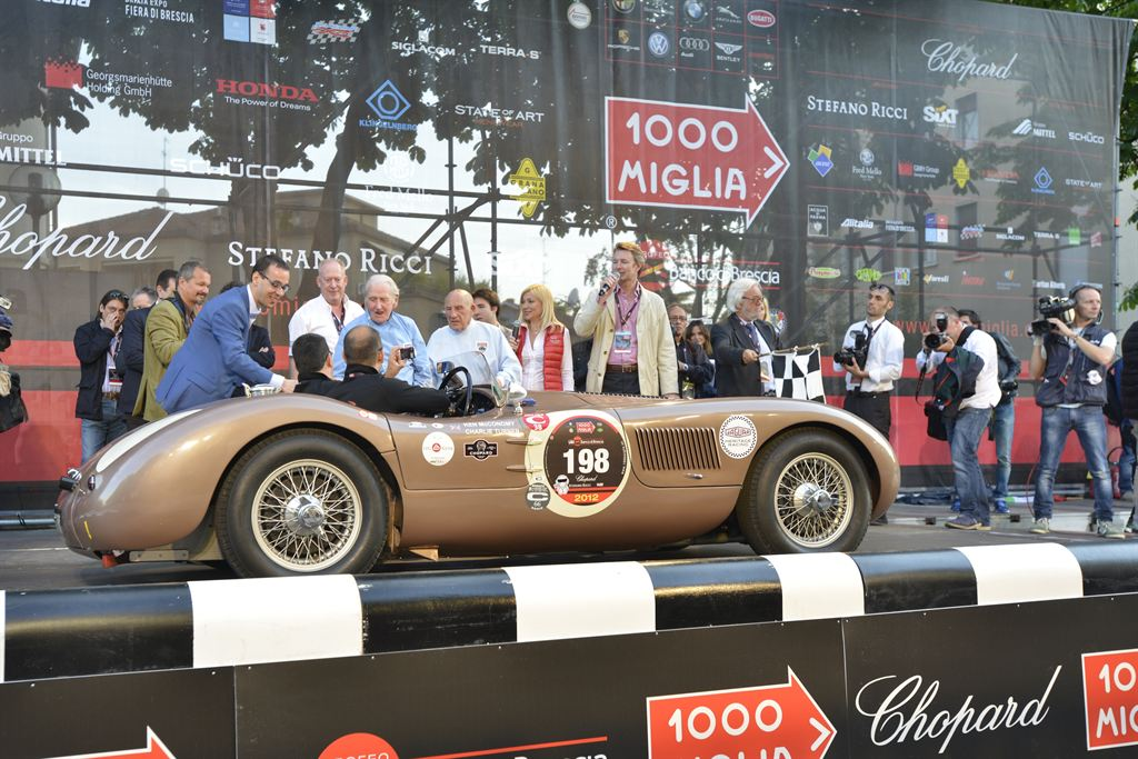 The six-car strong Jaguar Heritage Racing team arrived back in Brescia in the early hours of Sunday morning to successfully complete the 2012 Mille Miglia. The team's entries comprised three C-types, two XK 120s and a Mk VII saloon, each crew and car finishing the challenging Brescia-Rome-Brescia route without incident amongst an entry that included 32 Jaguars in total - a new record.